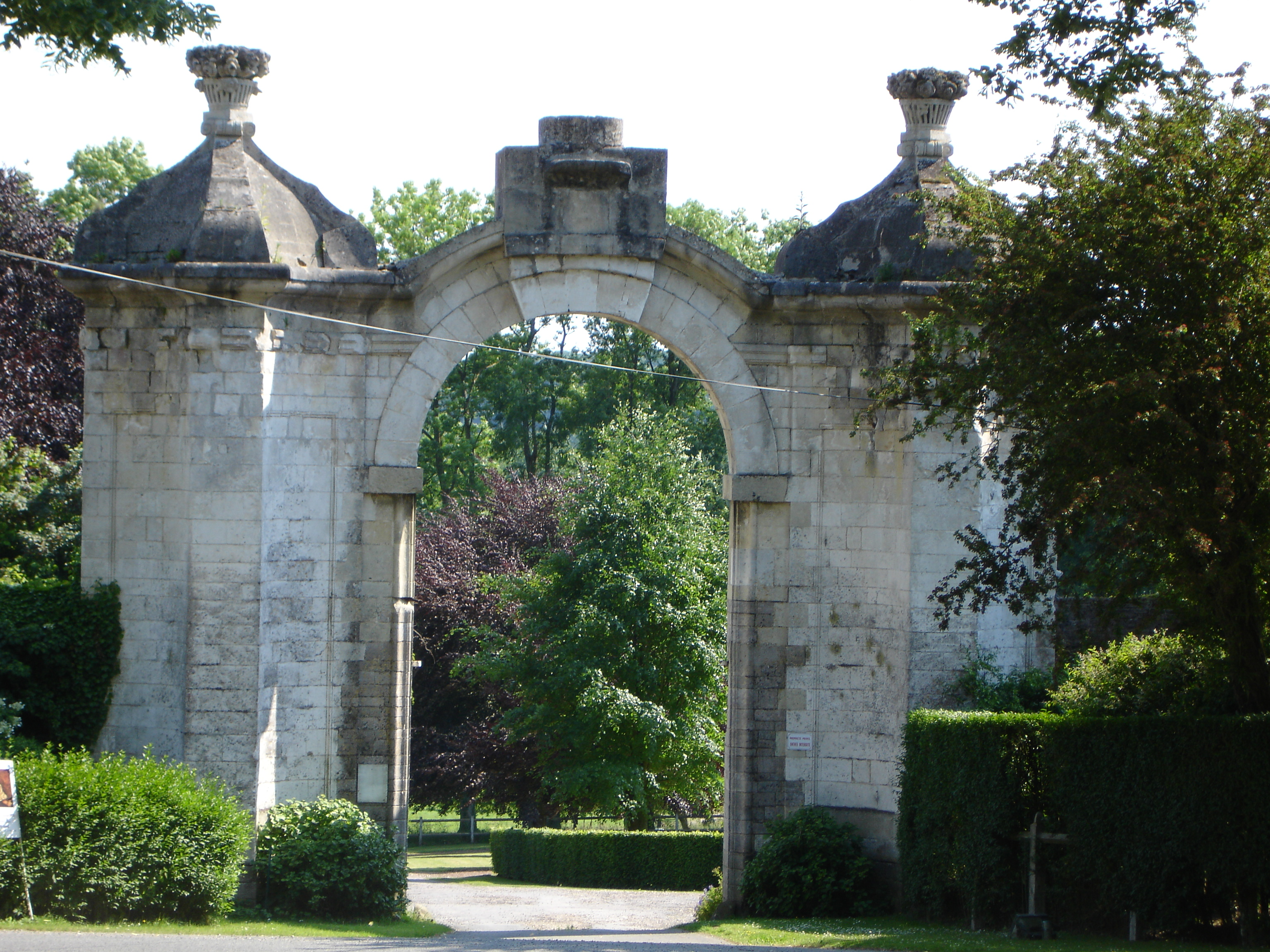 The high door of the old abbey of Dommartin